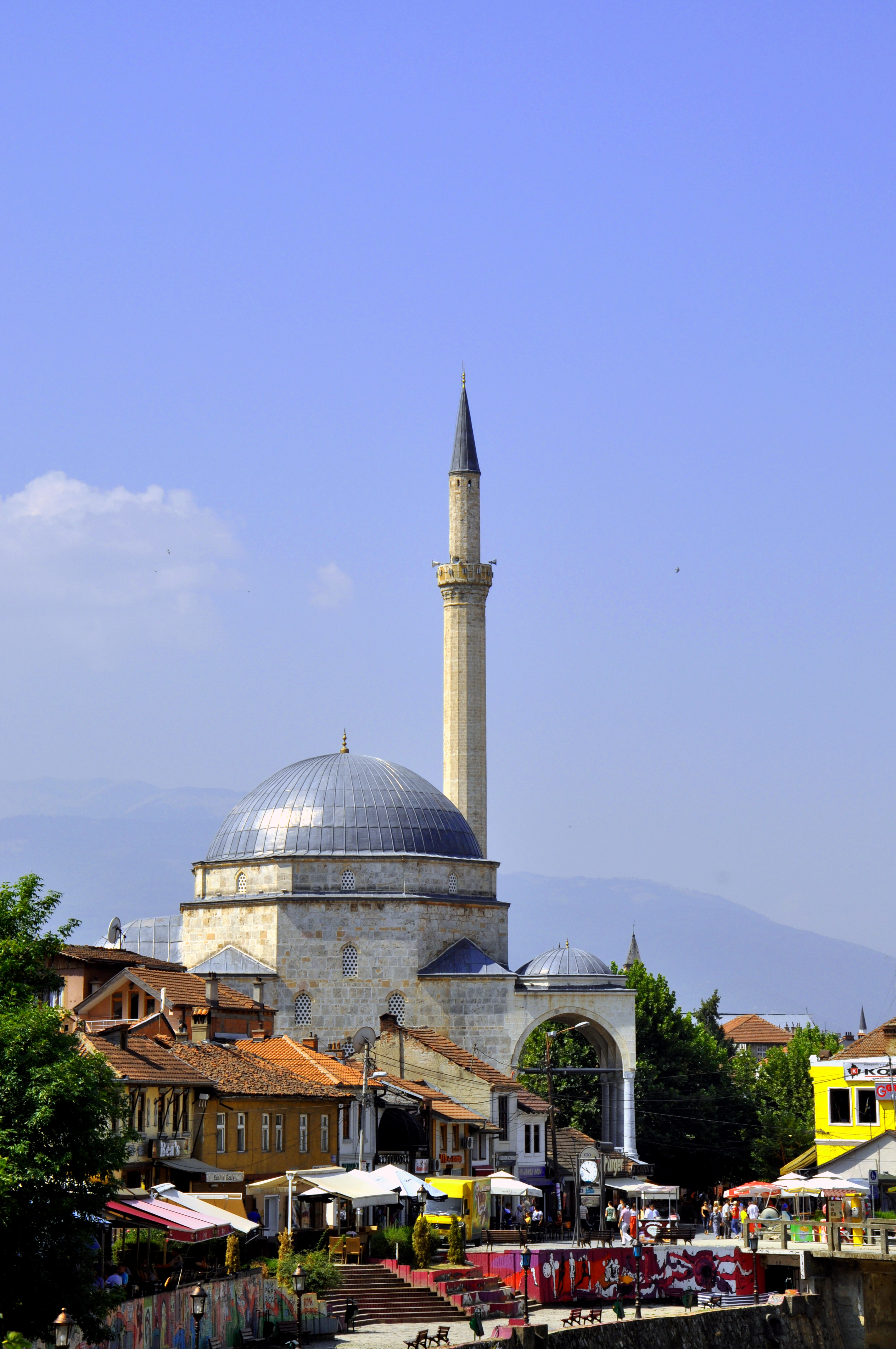 Sinan Pasha mosque